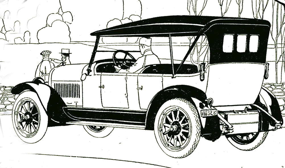 The Hudson Super Six was advertised in the June 22, 1918 Country Gentleman.